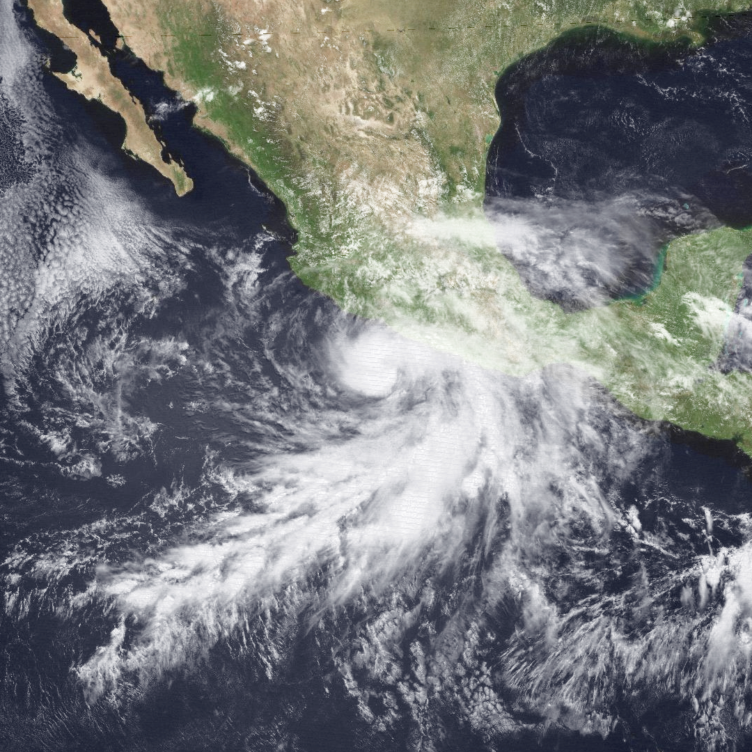 Hurricane Calvin near peak intensity off the coast of Mexico on July 6, 1993